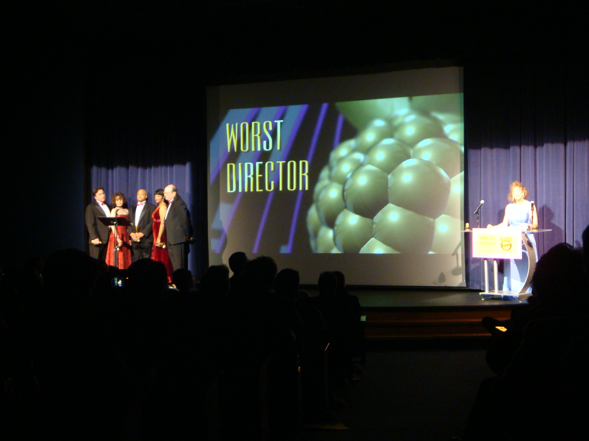 The Razzies at Barnsdall Gallery Theatre. Feb. 21, 2009